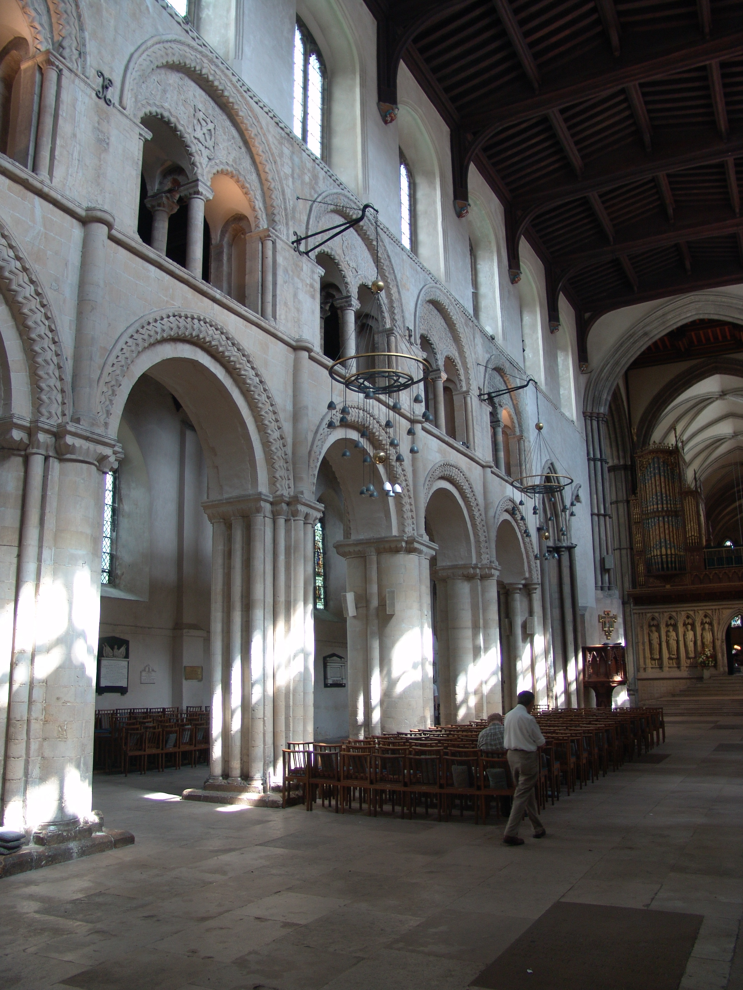 Rochester Cathedral